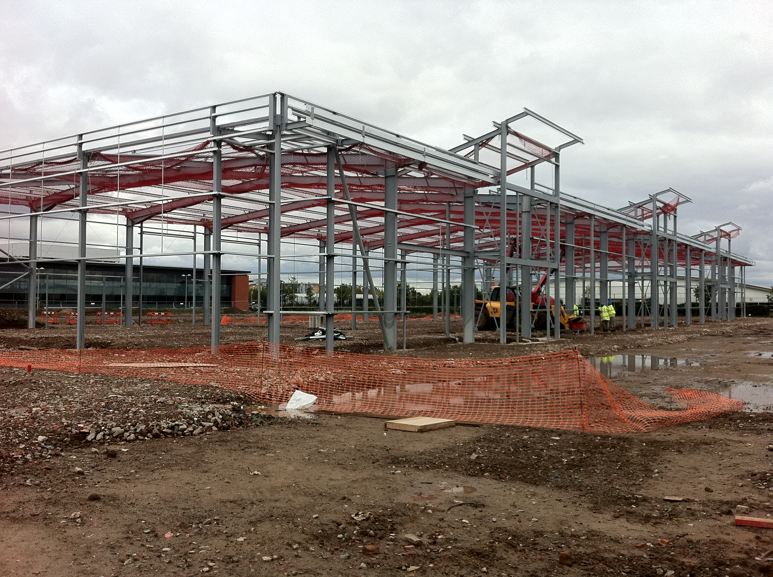 Photograph of a Estuary Commerce Park in Liverpool under construction in June 2012.